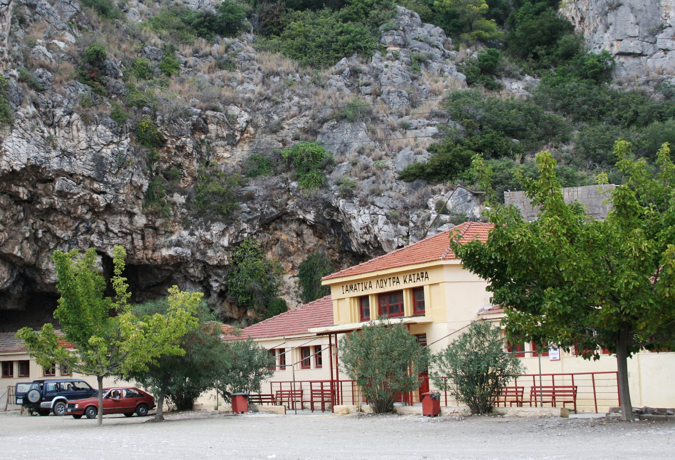 en: The old spa of Kaiafas near Zacharo de: Altes Thermalbad von Kaiafas bei Zacharo